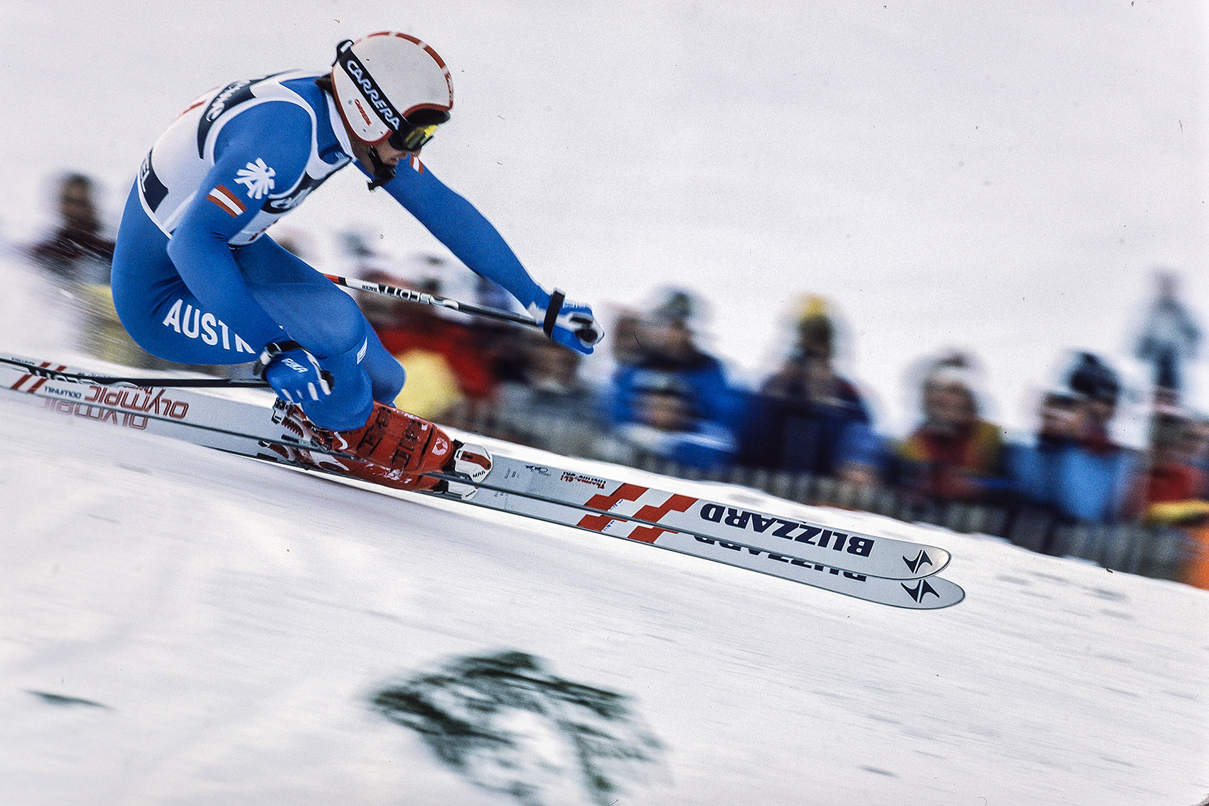 Franz Klammer, Ski World Cup Racer during 1973-1985